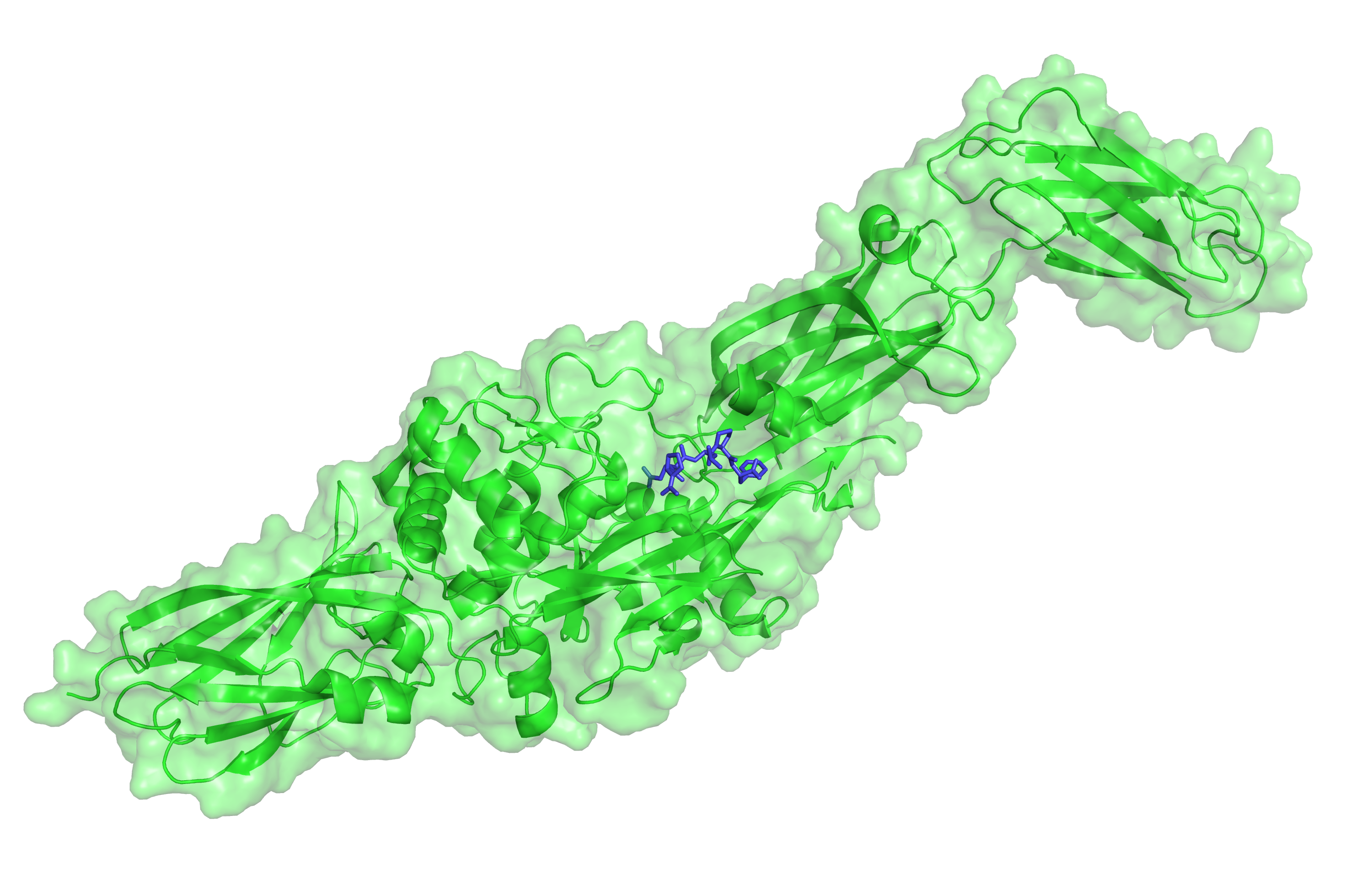 Tissue transglutaminase 2 (TG2) enzyme bound to a gluten peptide mimic. The protein is shown in green (PDB: 2q3z) in surface and cartoon form. The peptide mimic is shown in blue stick form. Made in pymol.